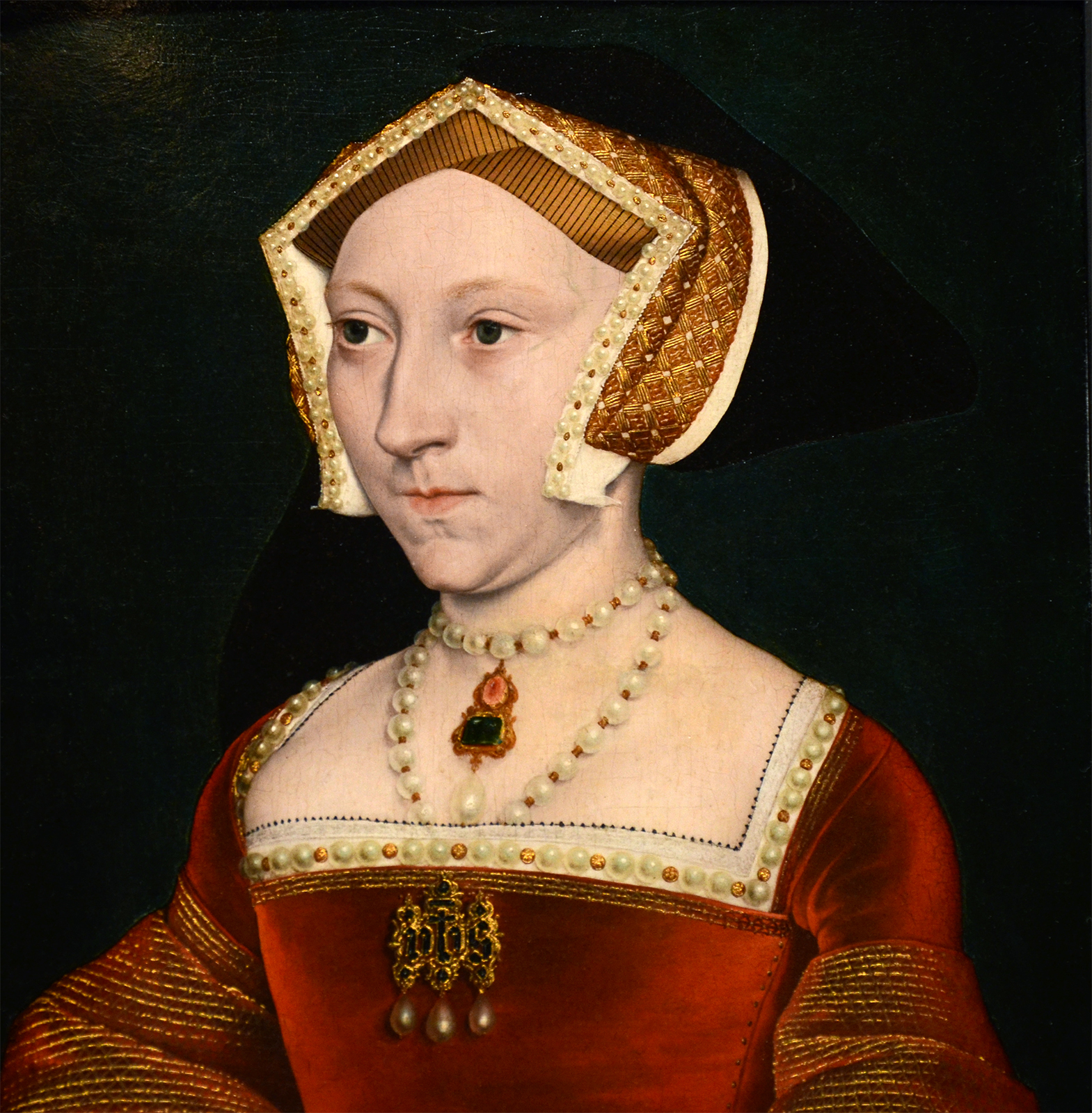 Detail of the portrait of Jane Seymour, third wife of Henry VIII, executed by the workshop of Hans Holbein the Younger, circa 1540. Presumably based on the portrait of Jane Seymour by Holbein in the Kunsthistorisches Museum, Vienna.